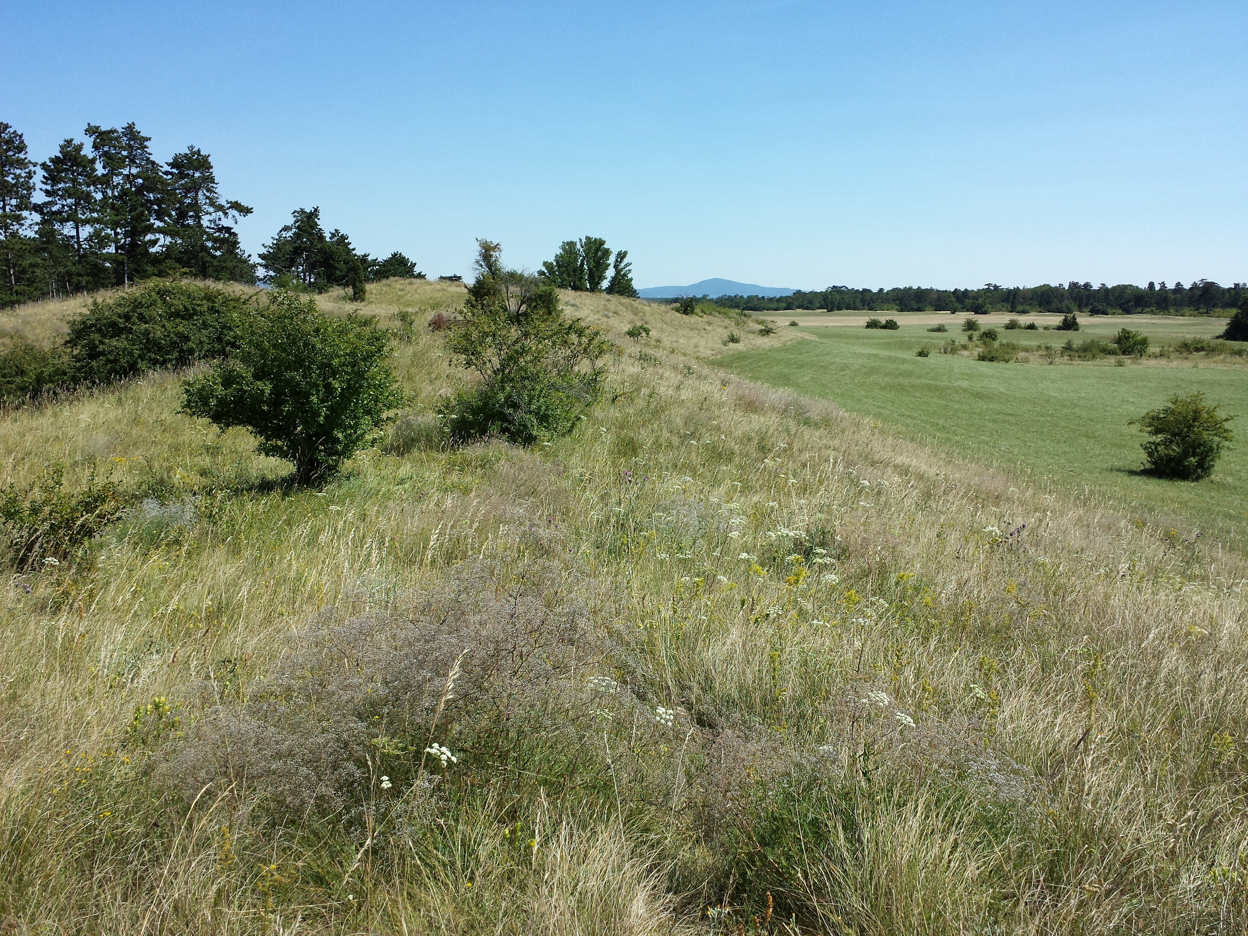 Nature reserve Sandberge Oberweiden View from sand hill to South-East